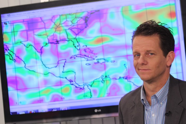 Daniel Rucks, presentador de TCS